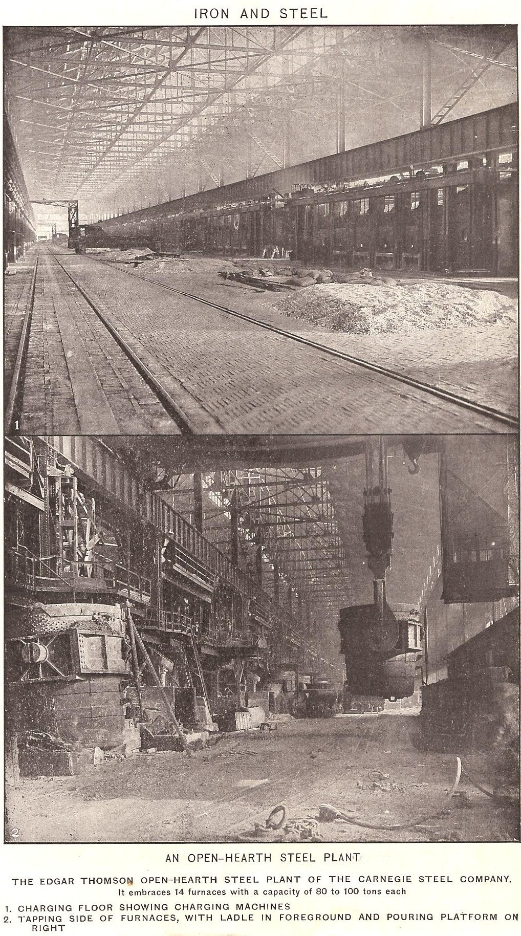 SultanOfVelocicaptorXVI An old public domain photogtaph of the Edgar Thomson Steel Works at Braddock taken from New International Encyclopedia